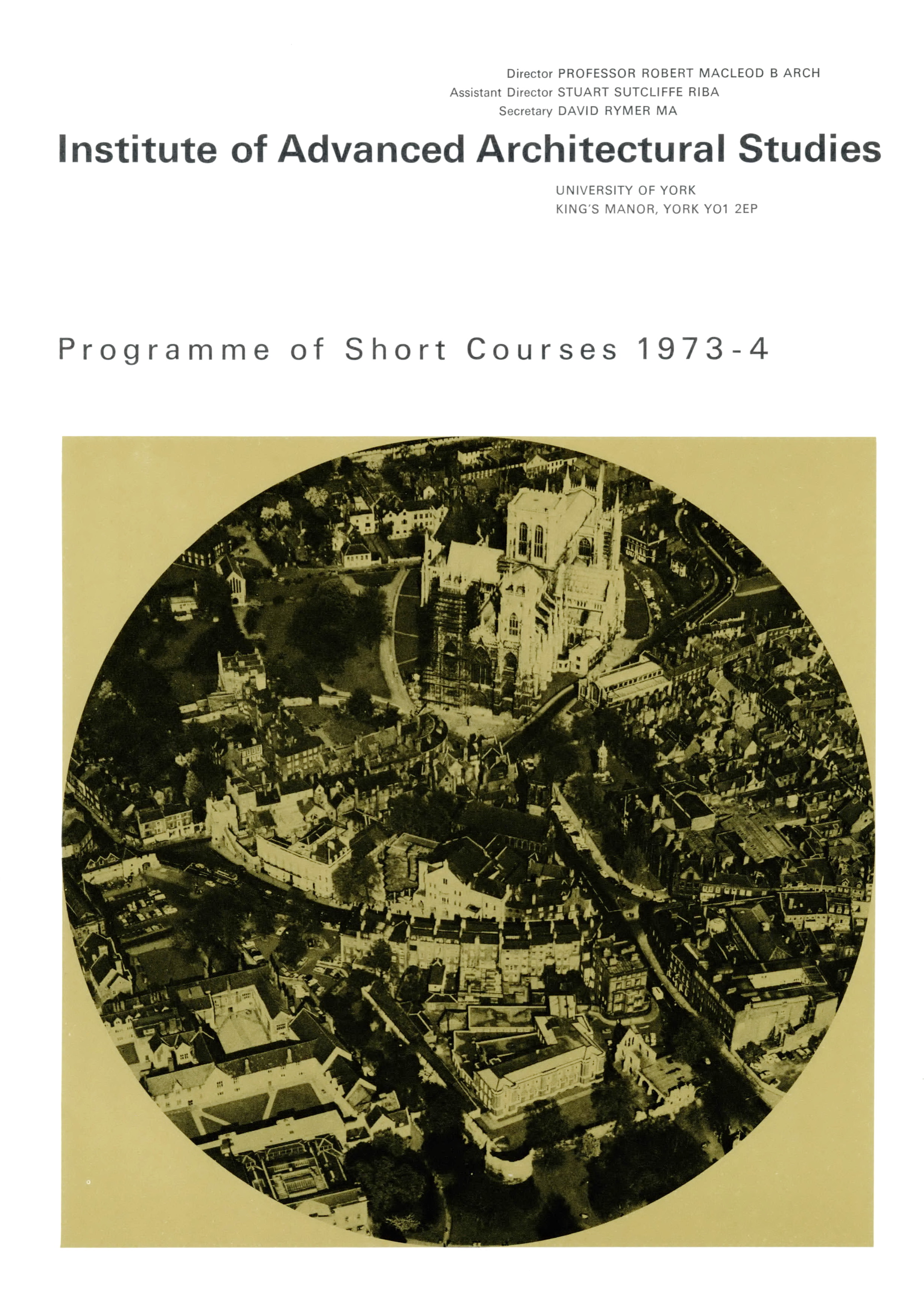 IoAAS Course Programme (Copyright, University of York, 1972), widely distributed 'flyer' for short course programme.